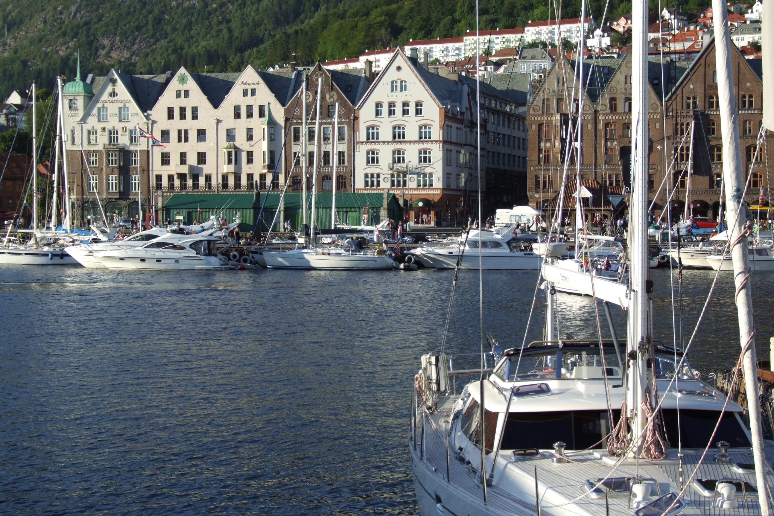 Harbour in Bergen